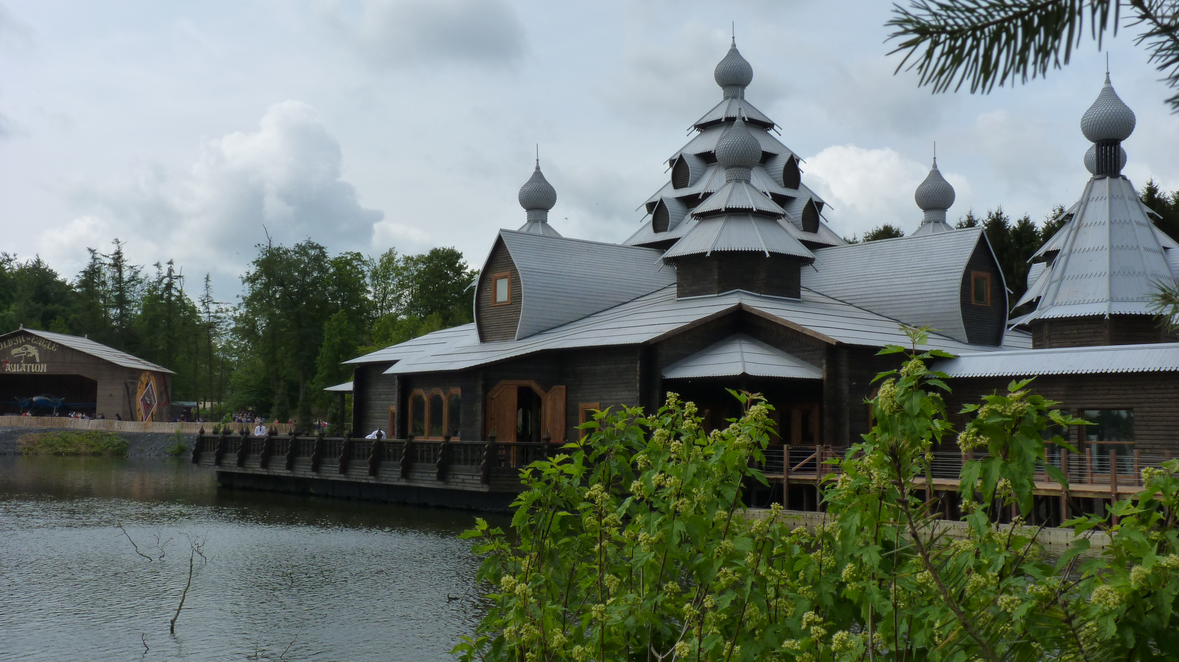 Pairi Daiza in Belgium, 2016, restaurant Izba in Terre du froid